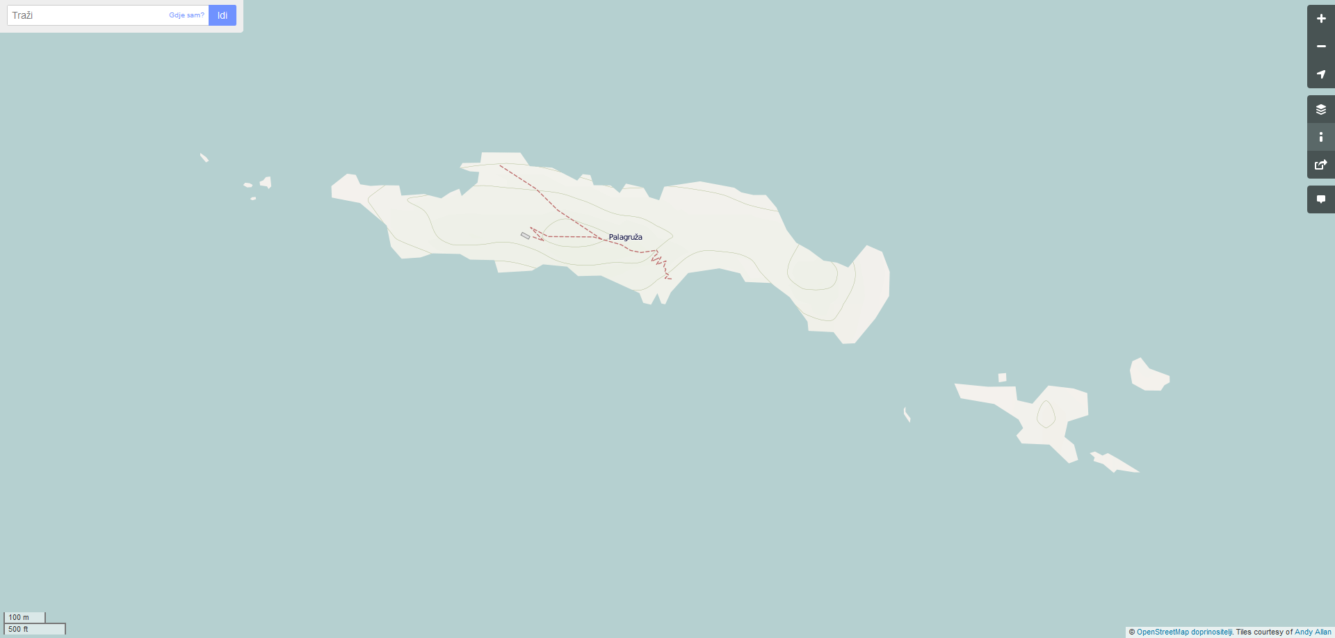 map of Palagruža